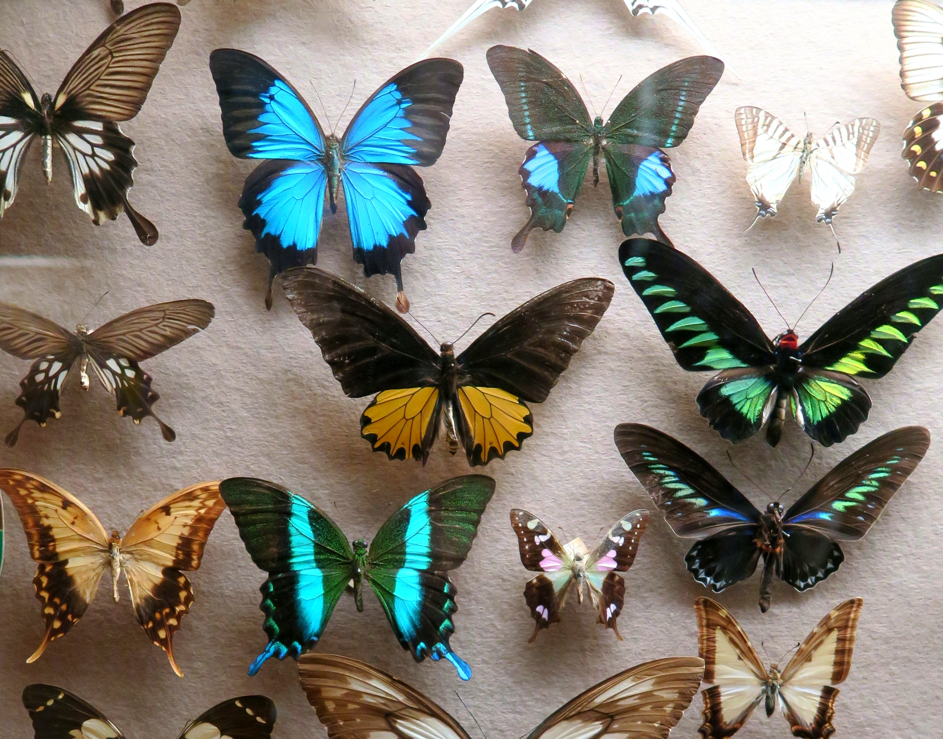 Booth museum 01